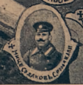 Portrait of IMARO member Mitse Solakov from Popolzani, Lerin region